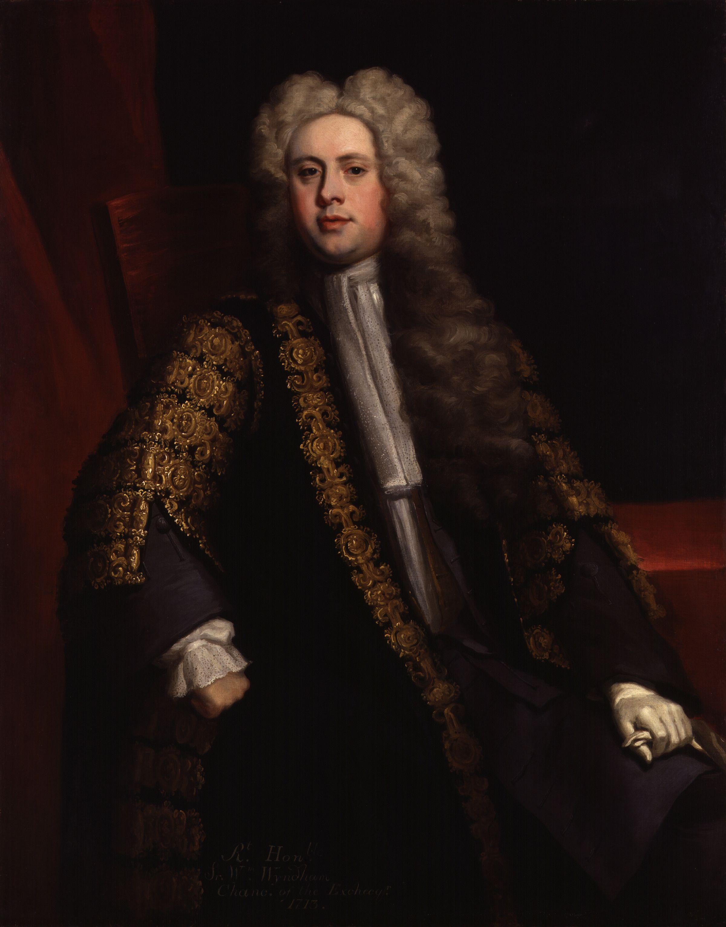 Sir William Wyndham, 3rd Baronet, English politician, was the only son of Sir Edward Wyndham, Bart., a grandson of Sir William Wyndham (died 1683) and a great-great-grandson of Sir John Wyndham of Orchard Wyndham, Somerset, who was created a baronet in 1661. All images in this batch have been confirmed as author died before 1939 according to the official death date listed by the NPG.